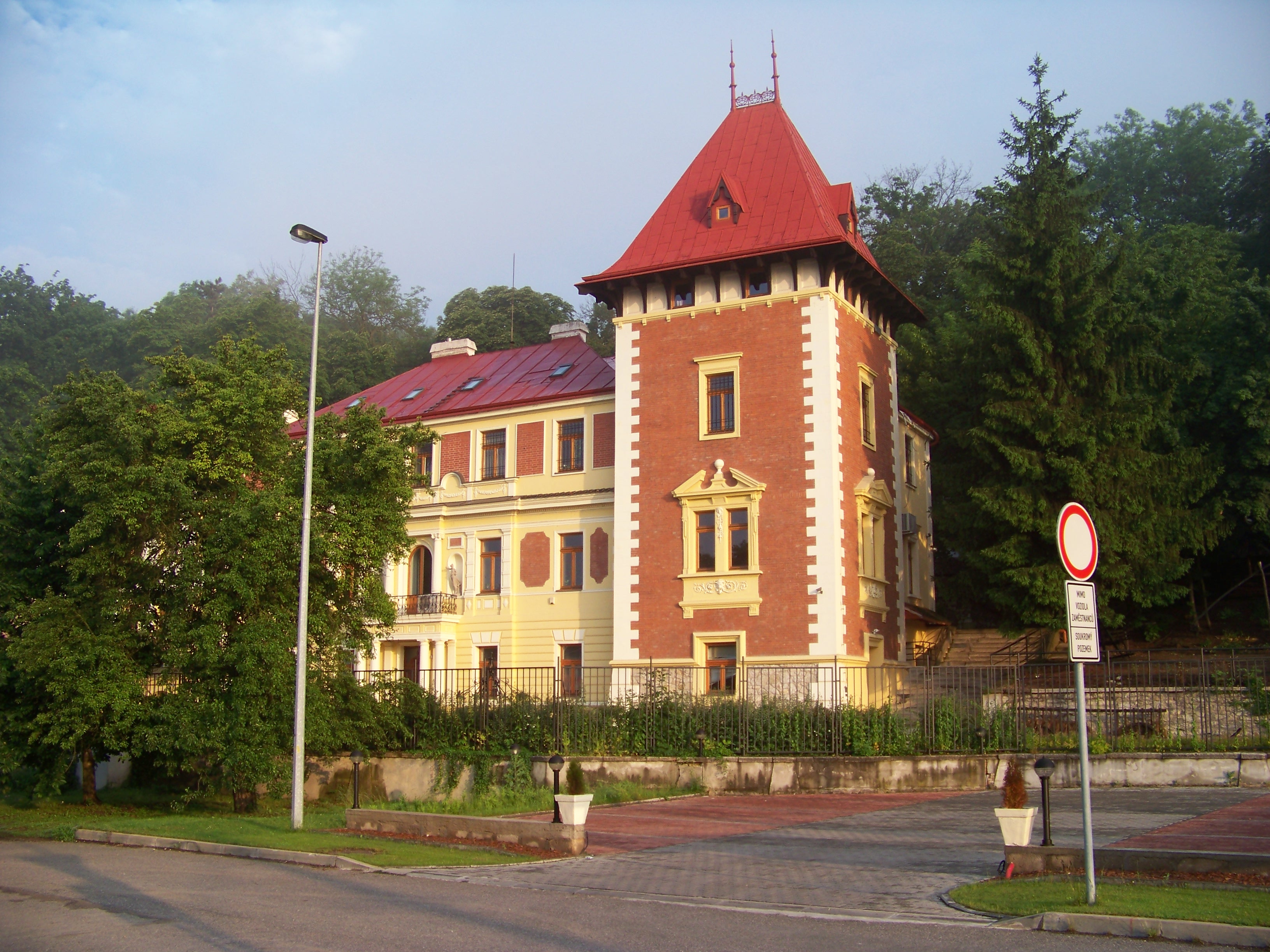 Hlubočepy, Prague, the Czech Republic. - Google Maps - Google Earth